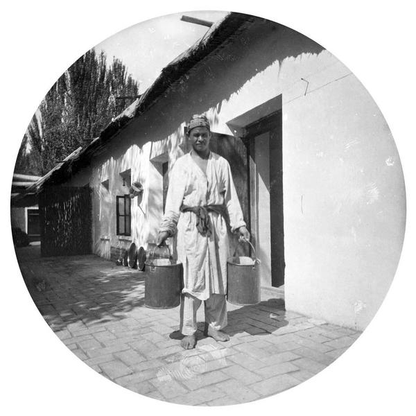 Чиназ чайханщик